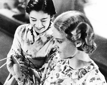 Setsuko Hara (1920– , left) and Ruth Eweler in the motion picture Atarashiki tsuchi (Die Tochter des Samurai).